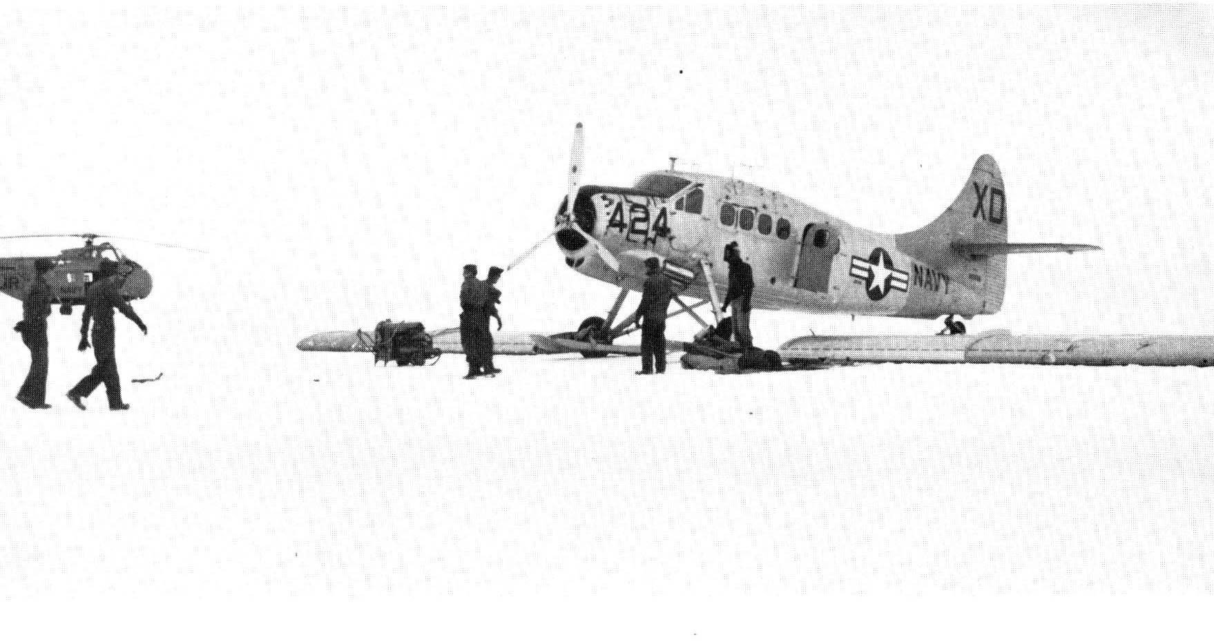 Crew members of VX-6 prepare to assemble a U.S. Navy de Havilland Canada UC-1 Otter aircraft (BuNo 142424) at McMurdo Sound. This aircraft crashed on takeoff near Cape Bird, Ross Island, Antarctica, on 2 December 1955. Gladly there were no fatalities. Note the Sikorsky HO4S in the left background.